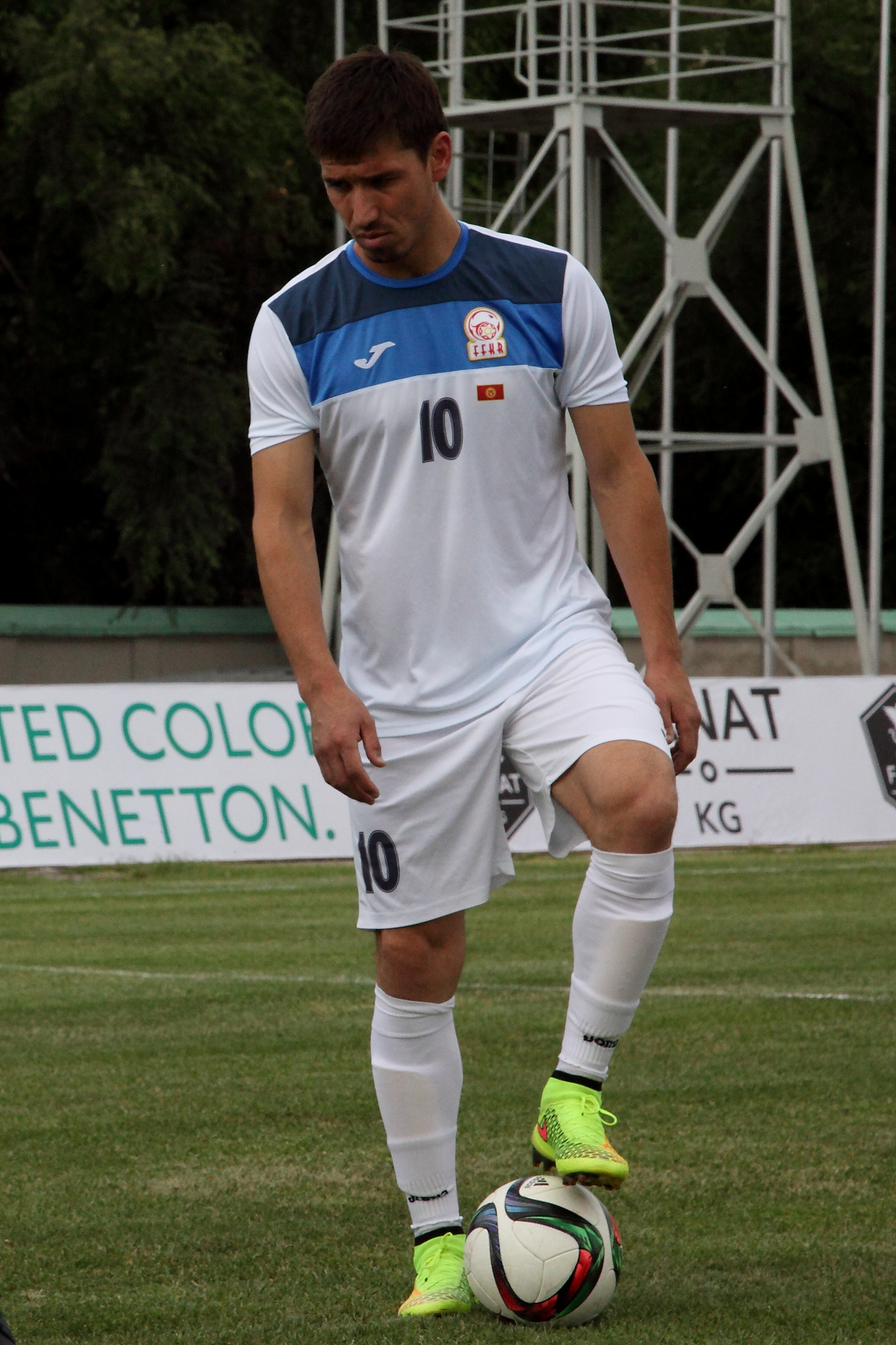 Mirlan Murzaev while training for Kyrgyzstan national football team in June 2015.